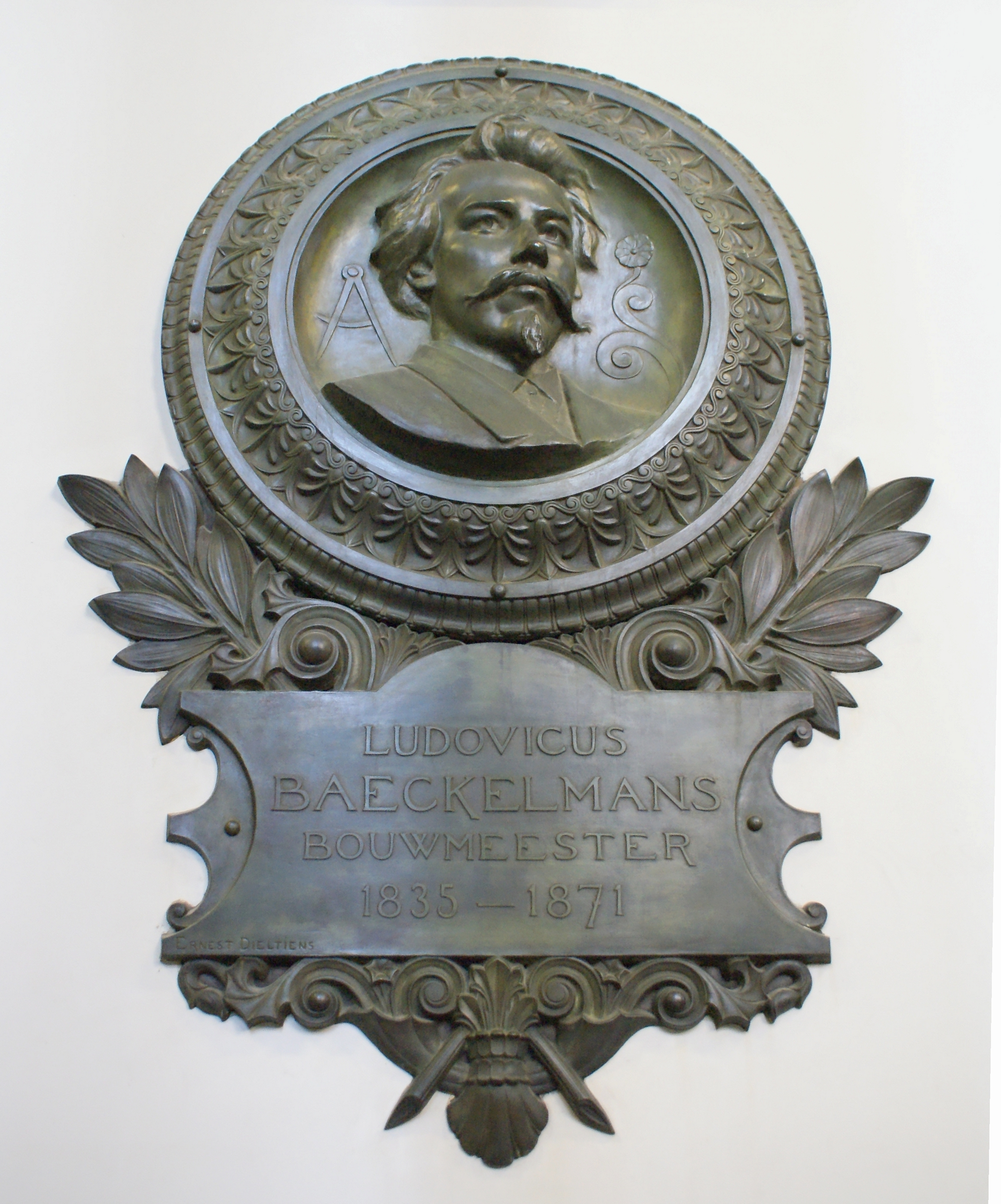 Memorial plaque (in the old courthouse in Antwerp) designed by architect Ernest Dieltiens, in honor of his colleague, architect Jan-Lodewijk Baeckelmans.